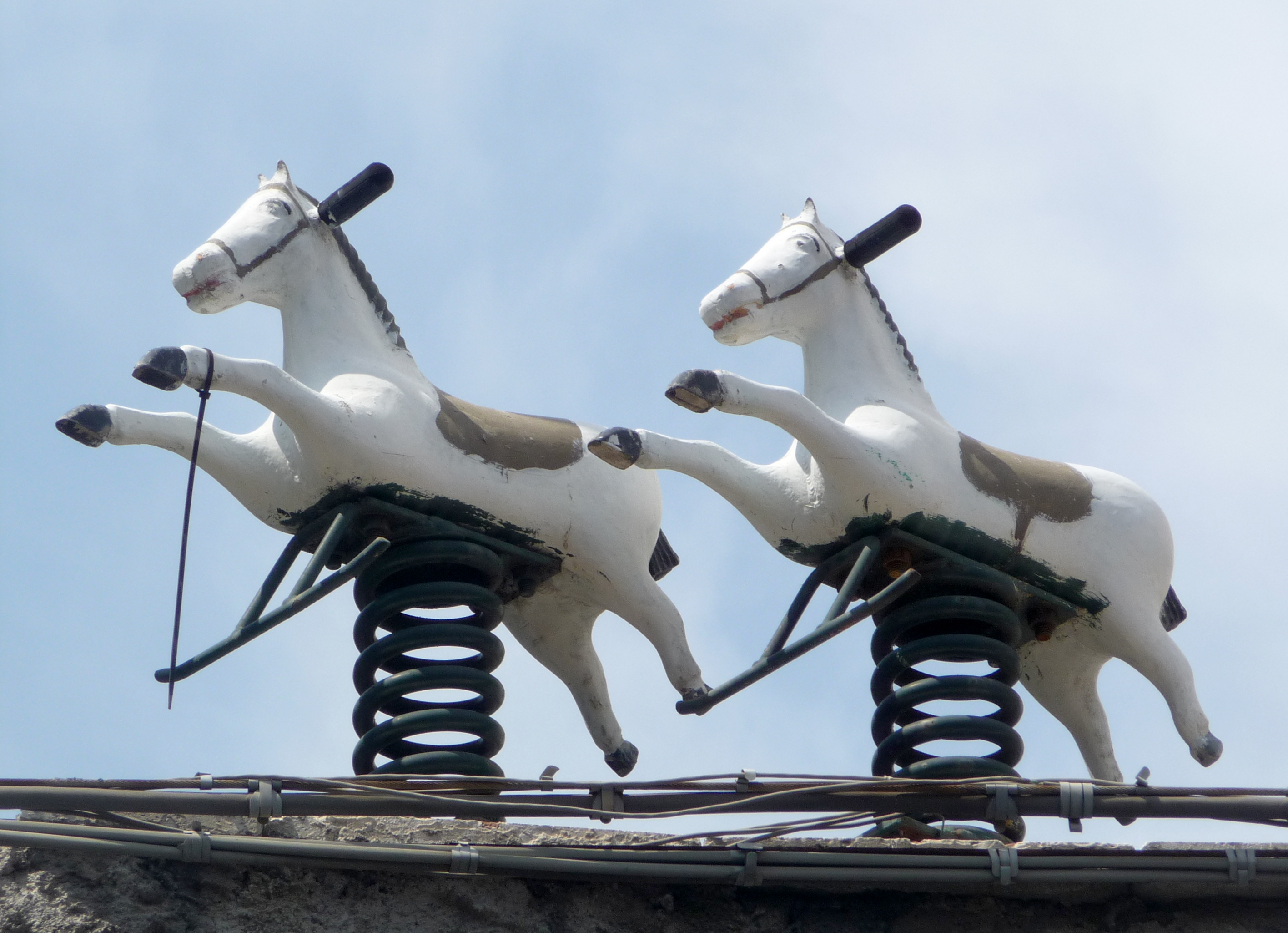 Two toy horses on springs - Photo taken in Catania, Italy